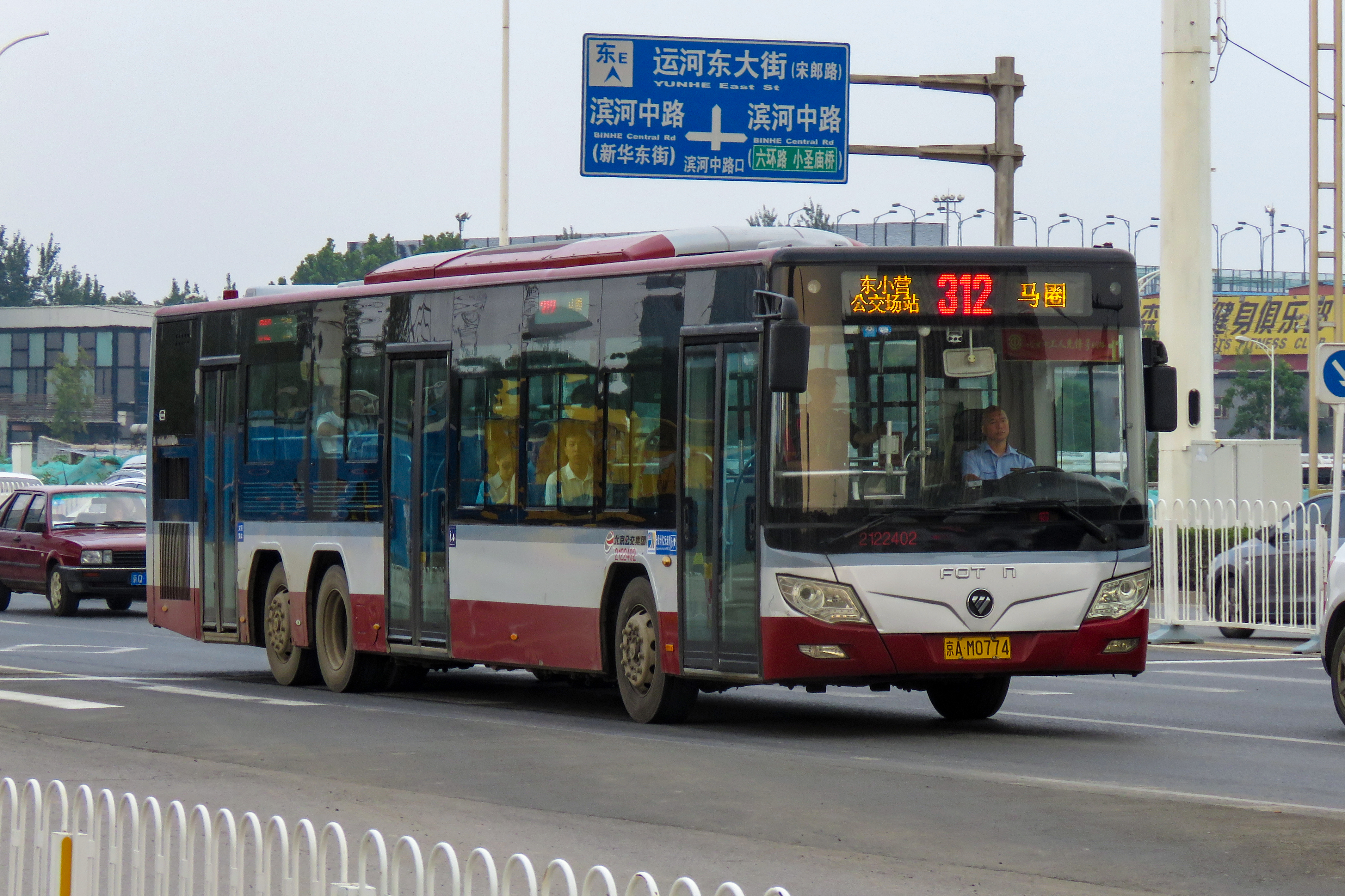 This "building materials city" is just on the west of Qiaozhuangdong Station.